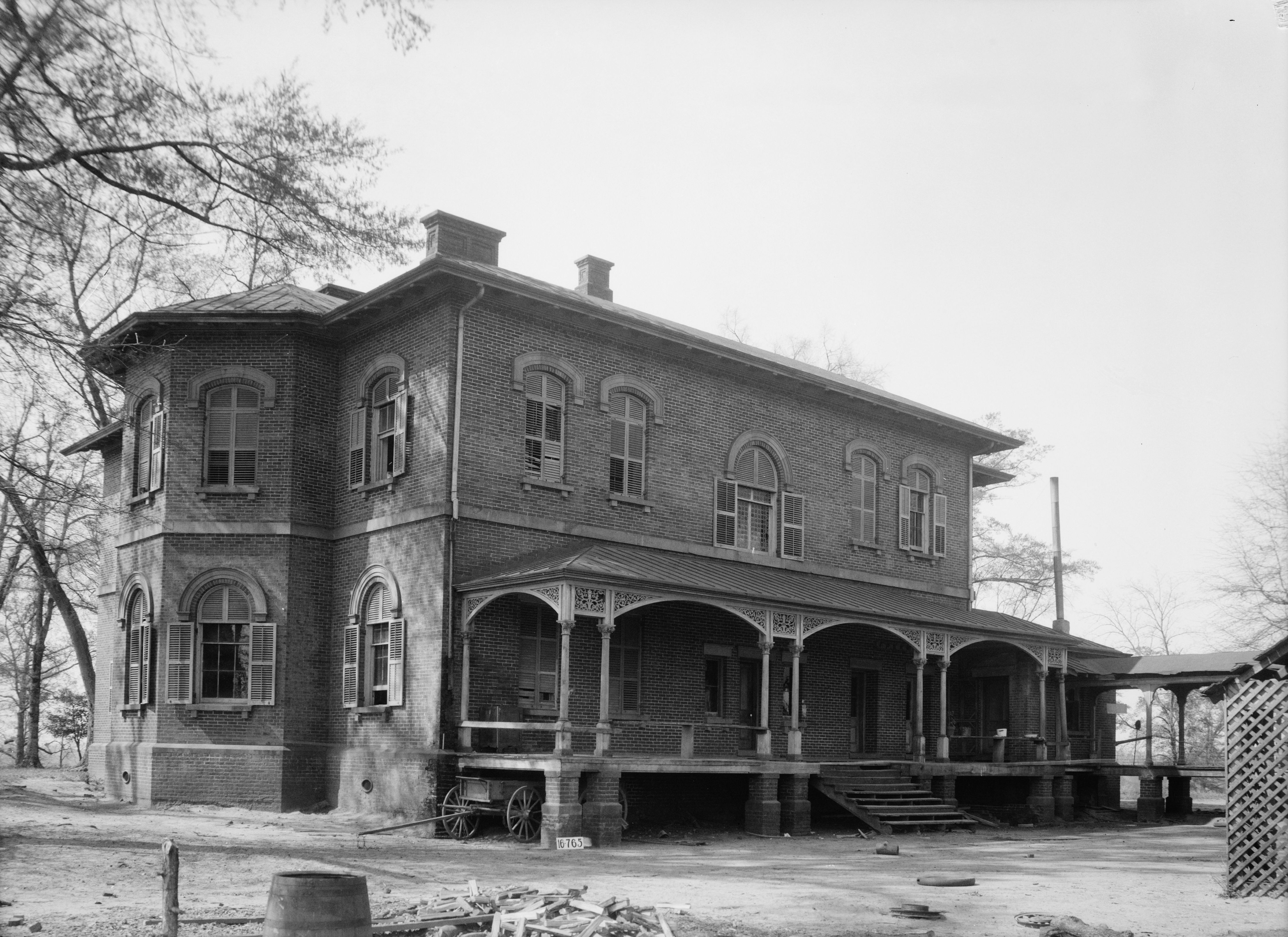 Kenworthy Hall, State Highway 14 (Greensboro Road), Marion, Perry County, AL. REAR VIEW.